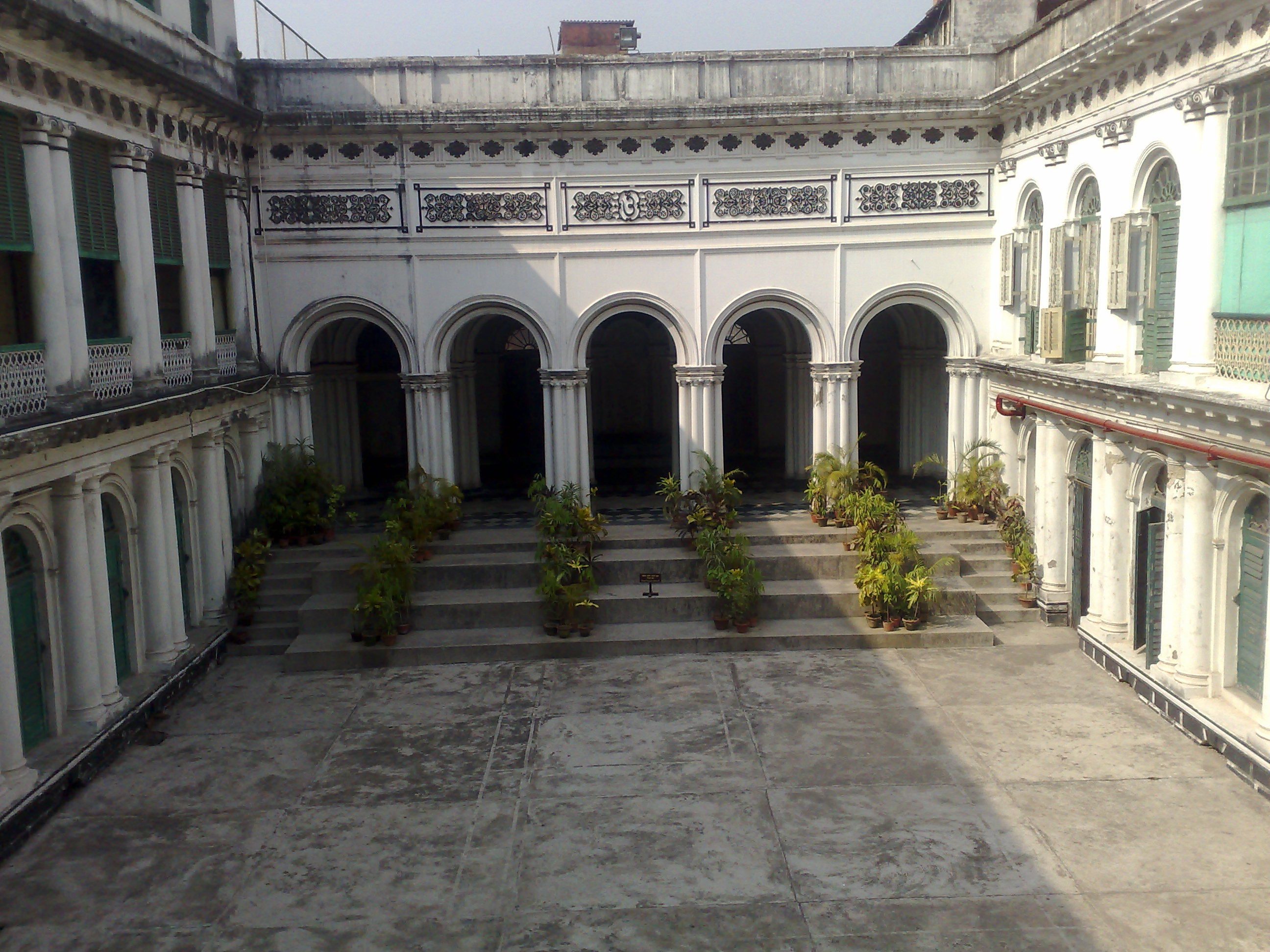 The location where brilliant Indian poet and Nobel laureate Rabindranath Tagore was both born and died.